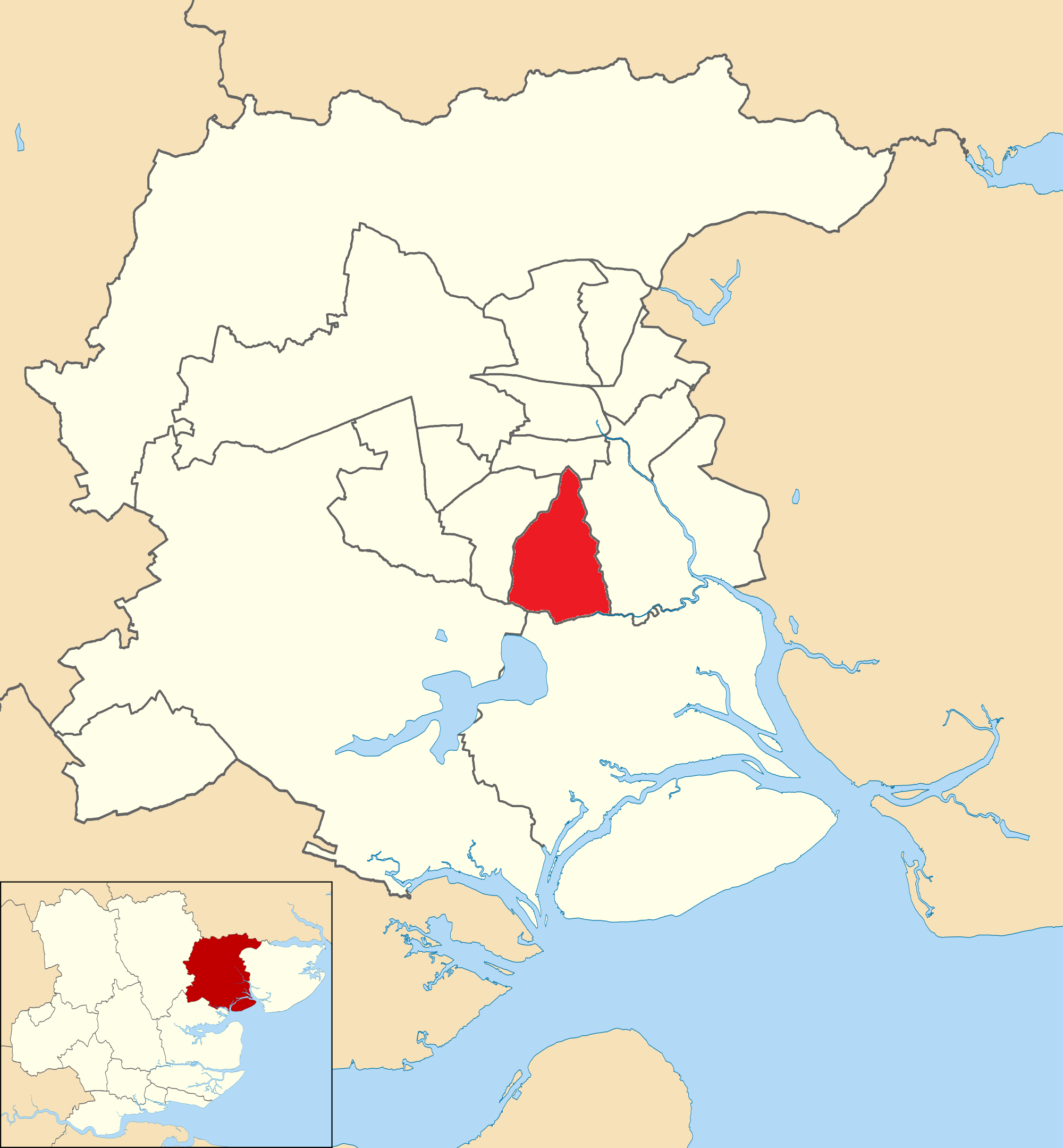 Berechurch ward highlighted within Colchester Borough